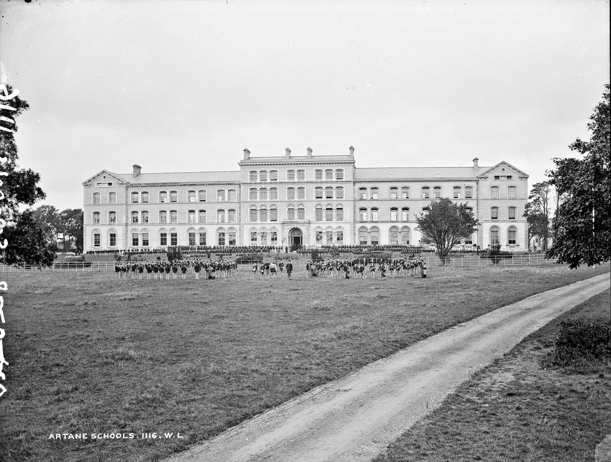 A fascinating view of the Artane Schools with an early iteration of the iconic band on display. The Musical Director appears to be front and centre and many of the typical band instruments are on display but I don't think those cellos and that double bass will be a success in Croke Park any day soon? Photographer: Robert French Collection: Lawrence Photograph Collection Date: Catalogue range c.1865-1914. Before 1908 (clock/pediment) NLI Ref: L_ROY_01116 You can also view this image, and many thousands of others, on the NLI’s catalogue at